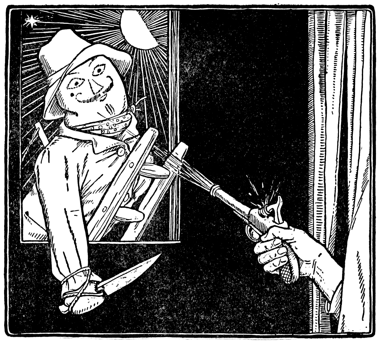 Illustration from a book of fairy tales from Europe, translated into english